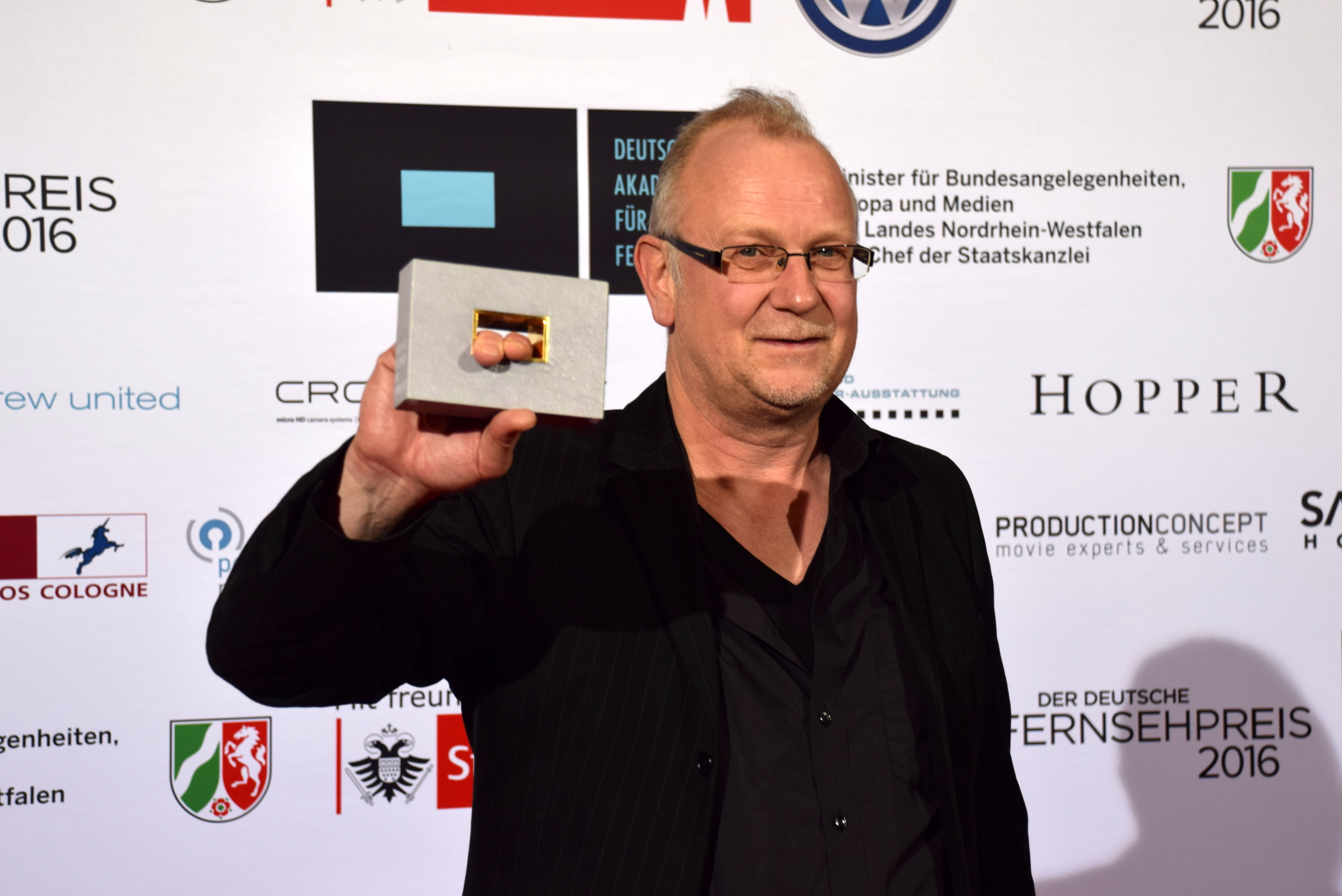 Ulf Albert (film editor of "Altersglühen"), at the German Academy for Television – prize ceremony 2015 in Cologne